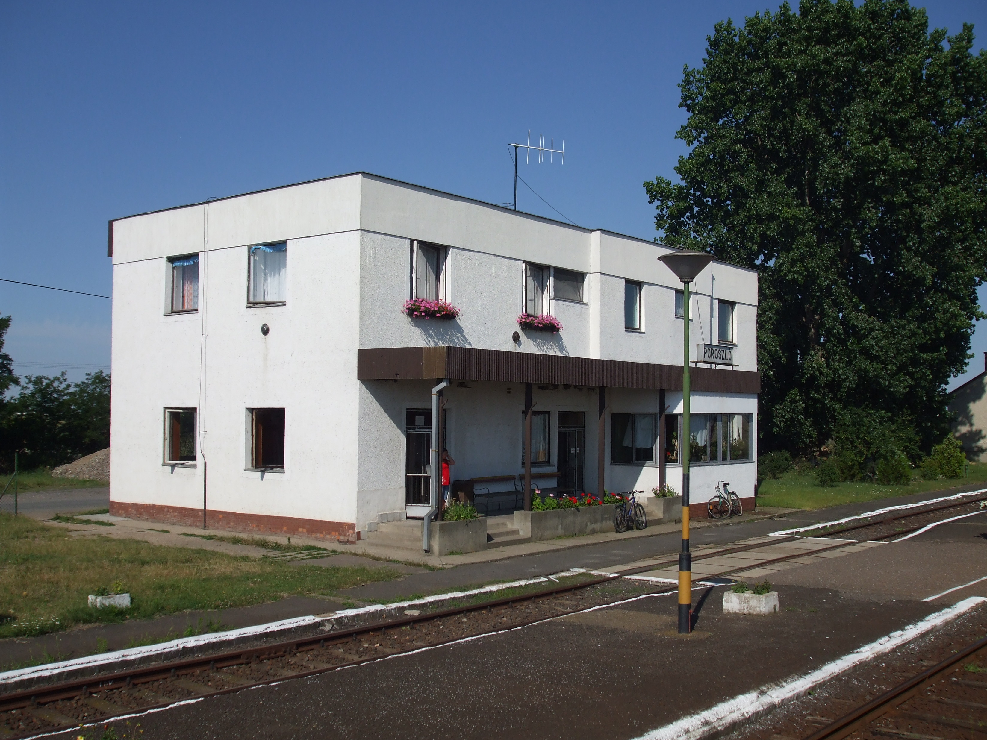 Railway station of Poroszló in the Debrecen–Füzesabony line, Heves County, Hungary